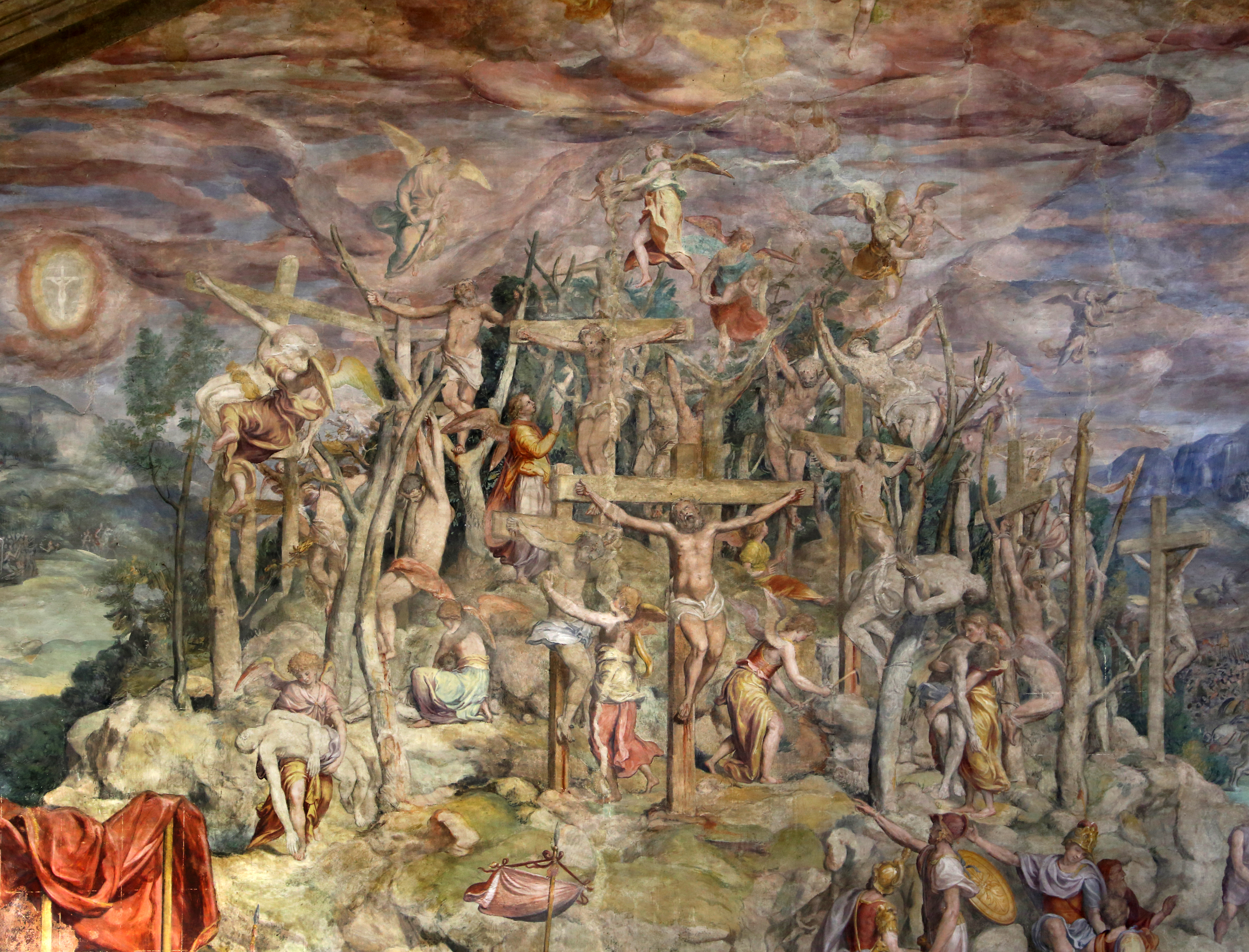 San Desiderio (Pistoia)